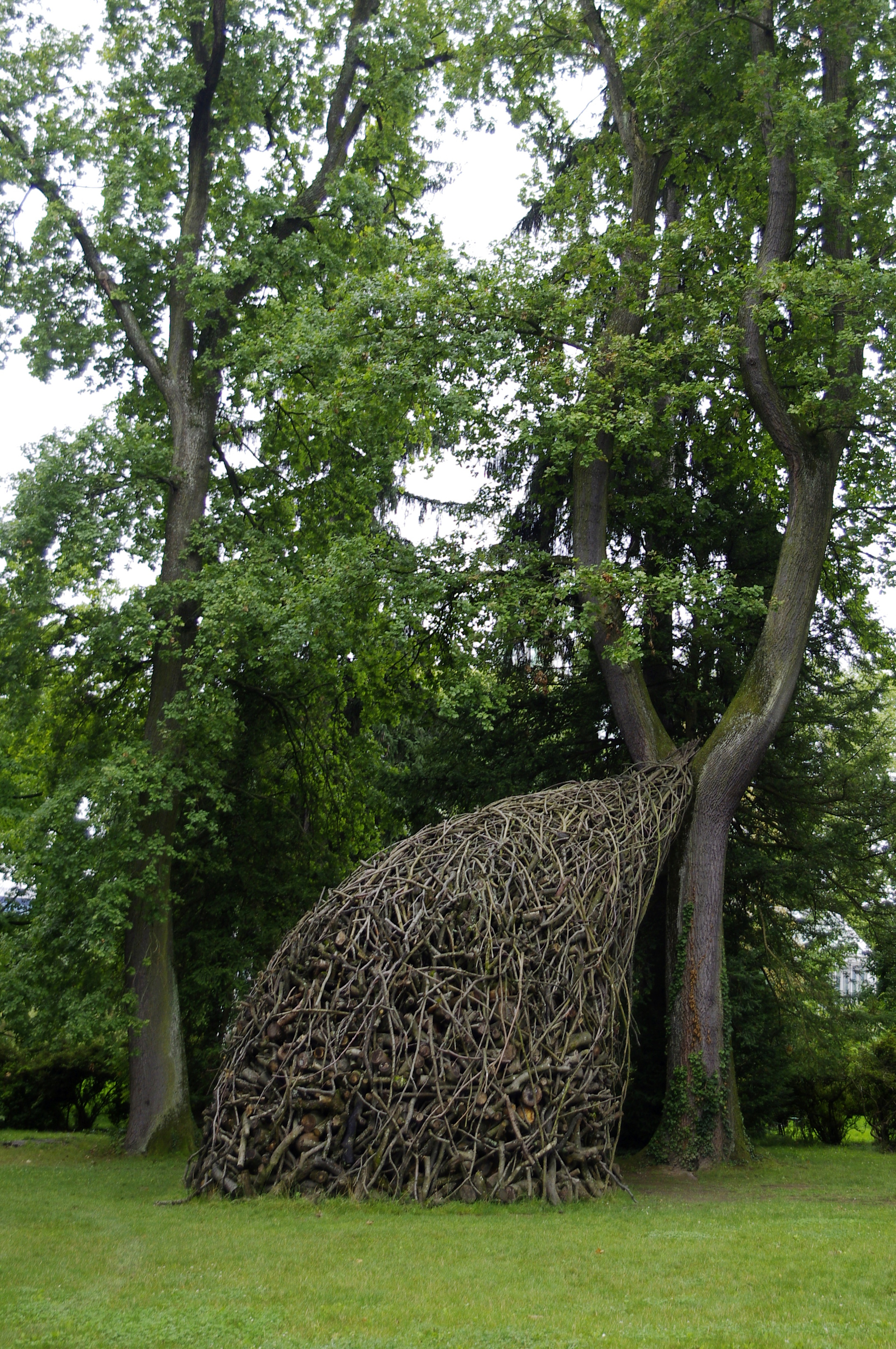 Geneva - Botanical Garden. La Coulée created by Bob Verschueren in september 2013.